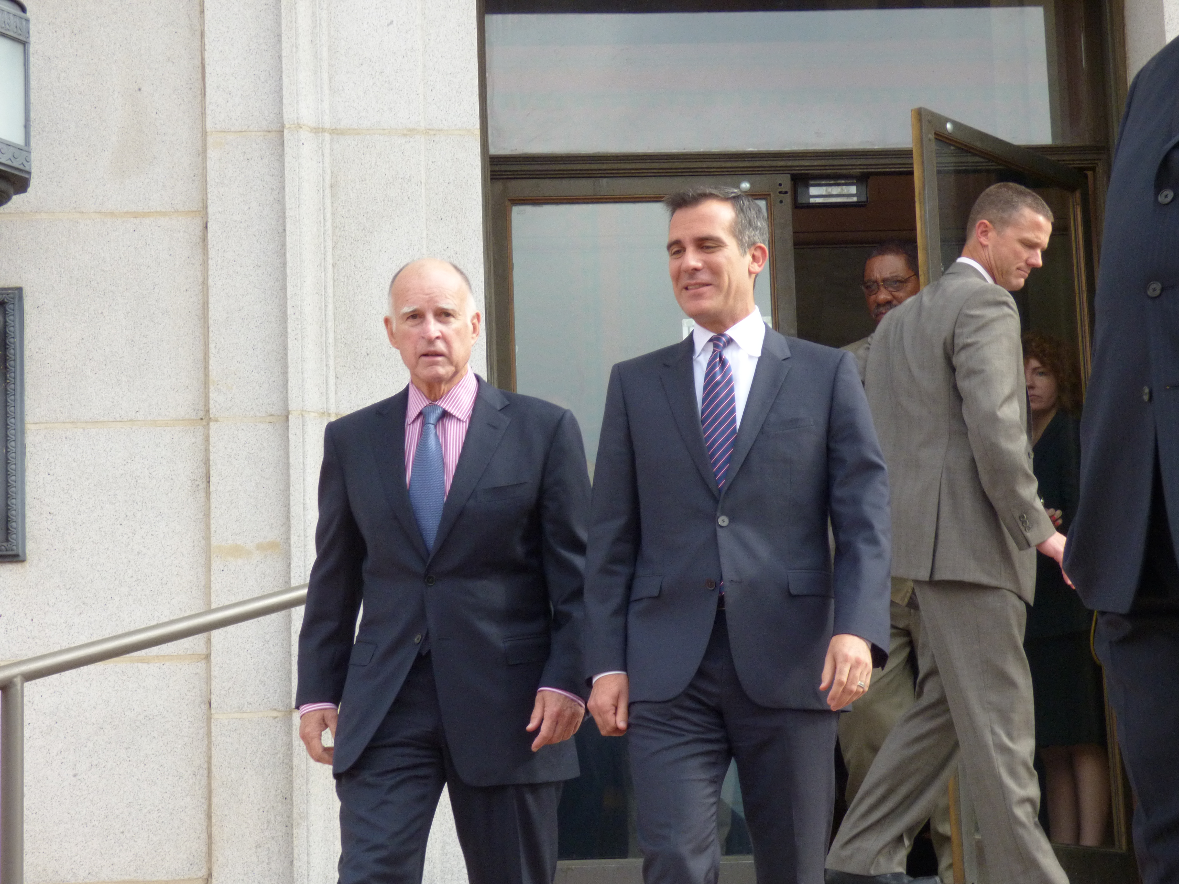 Mayor Garcetti, Governor Jerry Brown and elected officials celebrate the signing of AB60